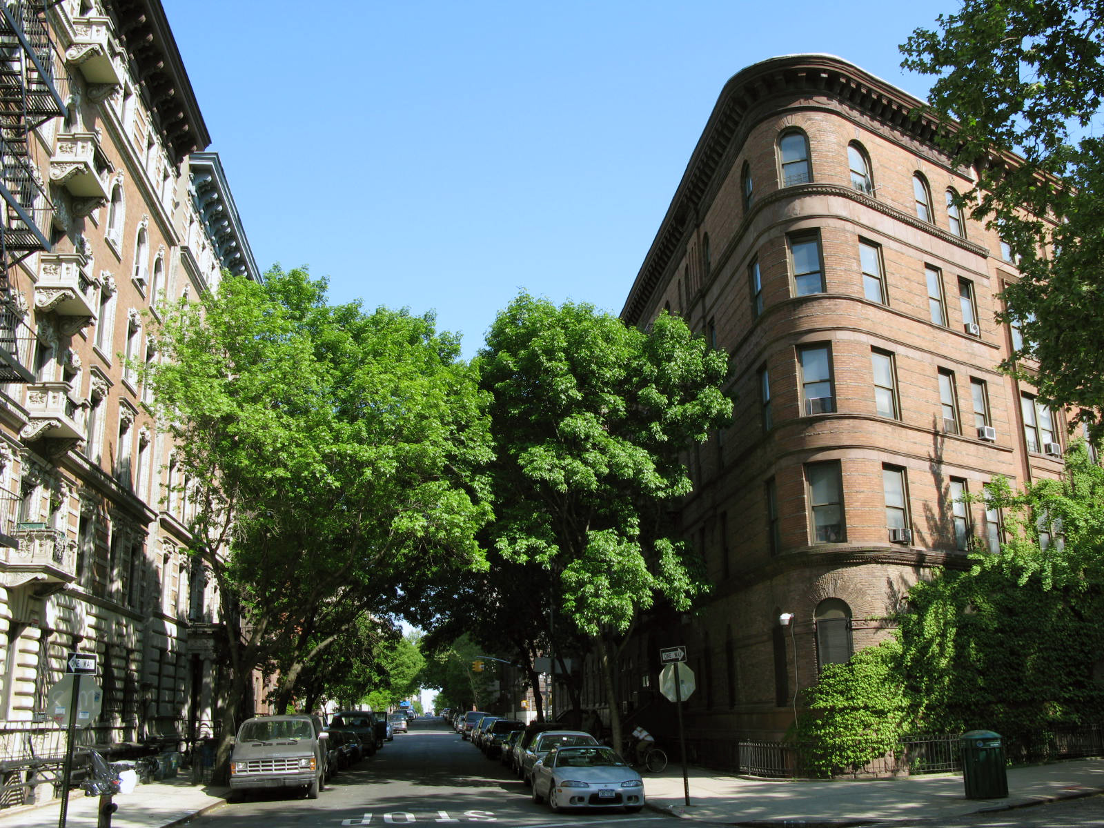 Harlem, New York City